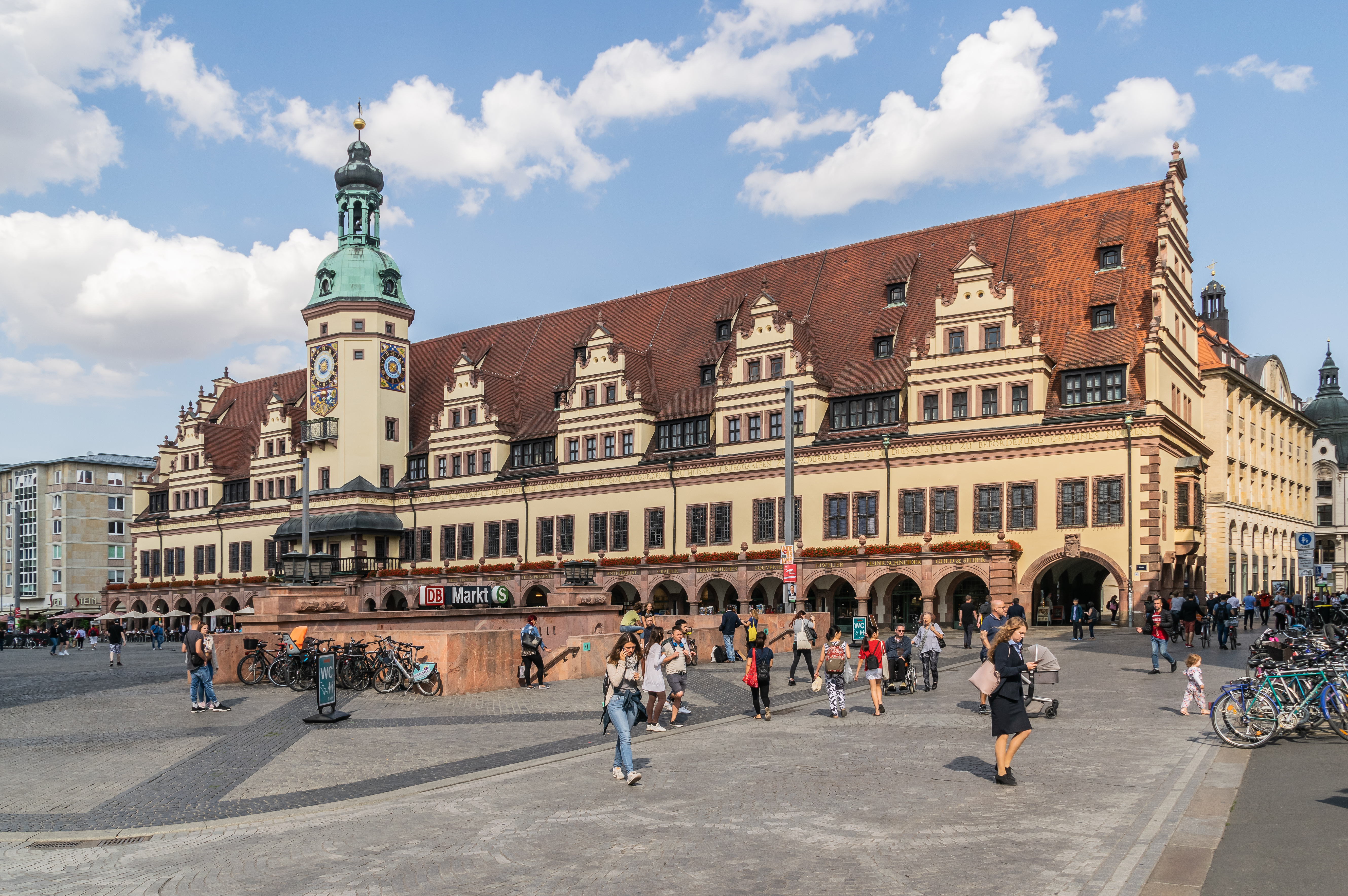 Old city hall of Leipzig, Saxony, Germany